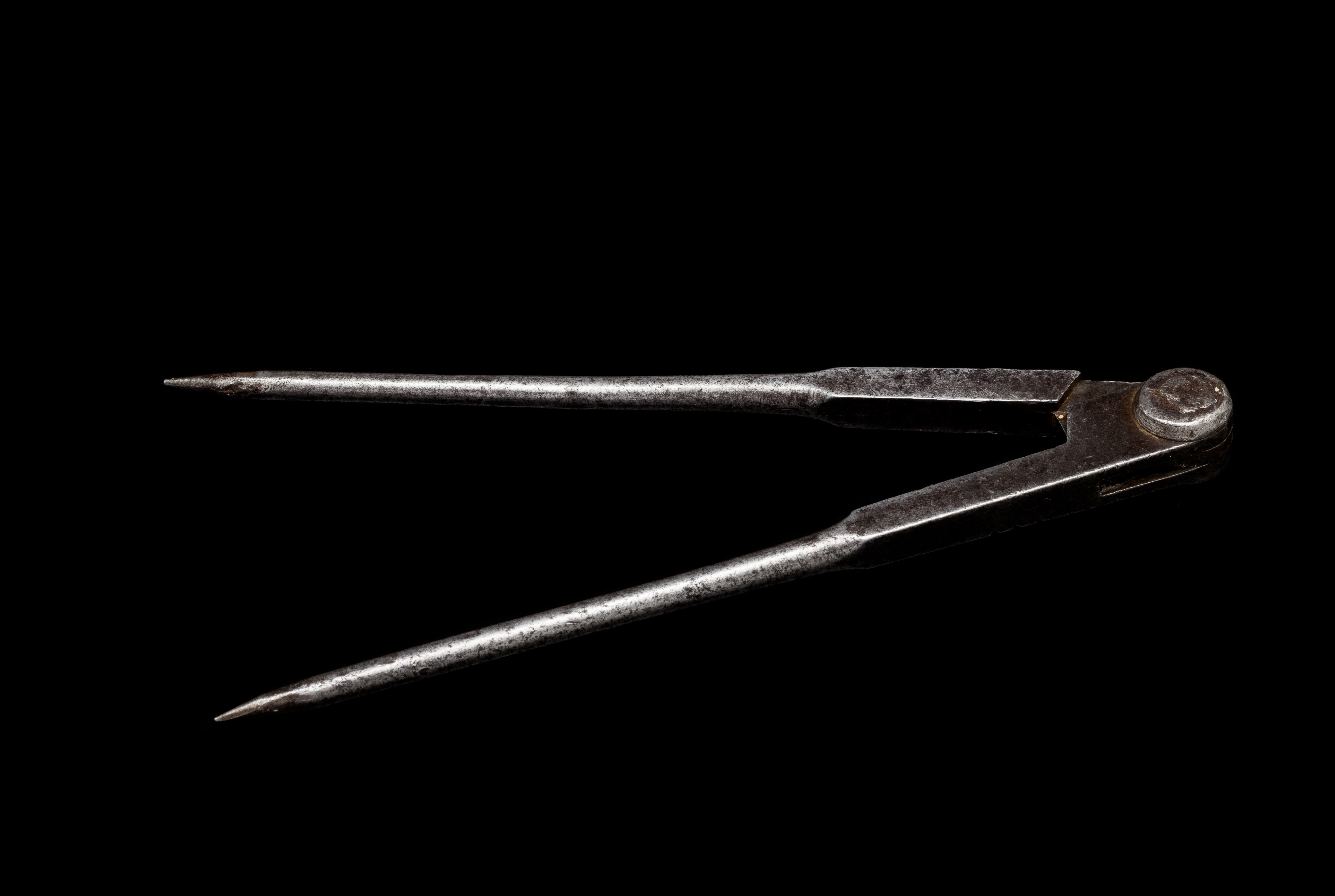 Compass made by Peugeot frères. Quality mark with one crescent.